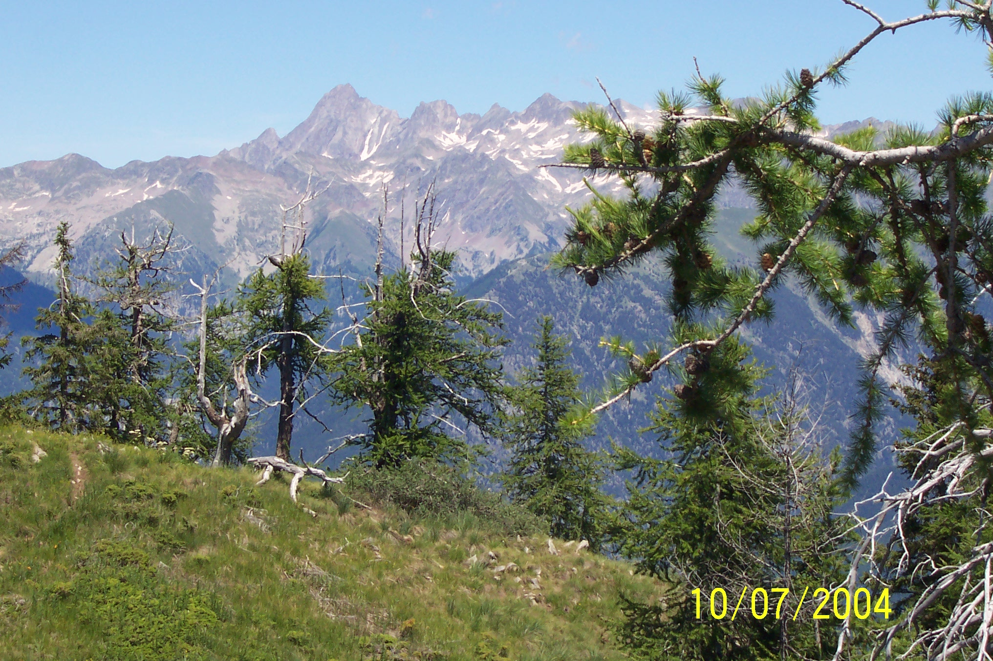 Mount Argentera from Moulinet